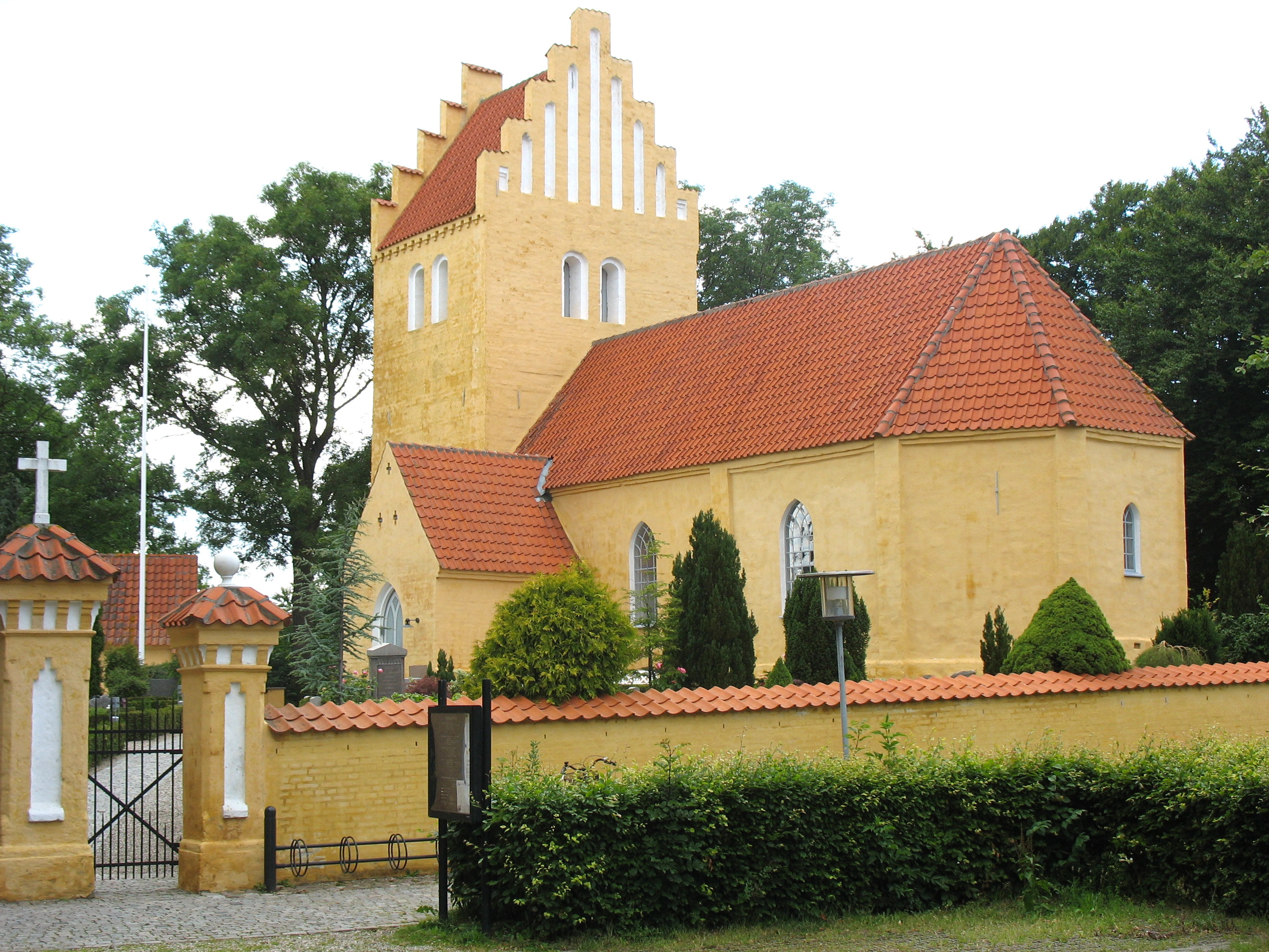 The church "Solrød Kirke" in the village "Solrød" located between the towns "Køge" and "Roskilde" in Middle Zealand, east Denmark.